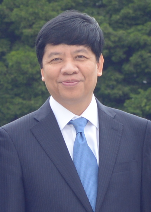 A Vietnamese delegation pauses for a photo with a group of Oregon Army and Air National Guard members at the Armed Forces Readiness Center at Camp Withycombe, in Clackamas, Ore., June 16. The visit, which was part of the State Partnership Program, included Vietnamese Ambassador to the United States Nguyen Quoc Luong and his wife, Hoang Minh Ha, and Vietnam Economics Counselor, Le Chi Dung. The delegation toured Camp Withycombe, and was scheduled to visit Portland State University and Nike later in the day. The group was also given an overview of the Oregon National Guard's state and federal missions, in addition to the domestic emergency response role the National Guard plays throughout the world. Photo by Master Sgt. Nick Choy, Oregon Military Department Public Affairs.